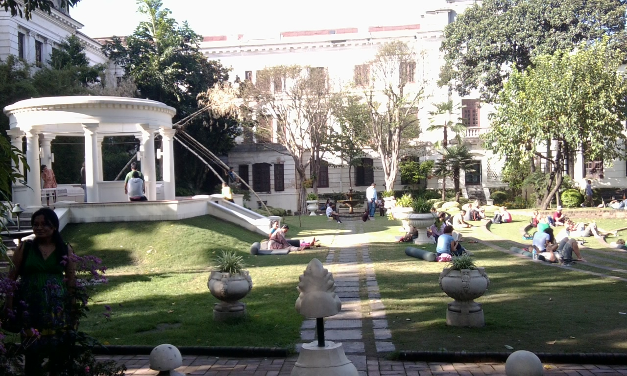 A historical place in Nepal.